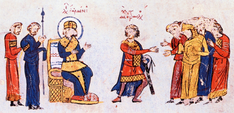 Skyllitzes Matritensis, fol. 13r, detail Miniature: Leo V the Armenian and Michael Traulos